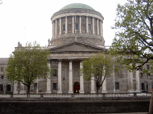 four courts, Dublin - my image, no c/r